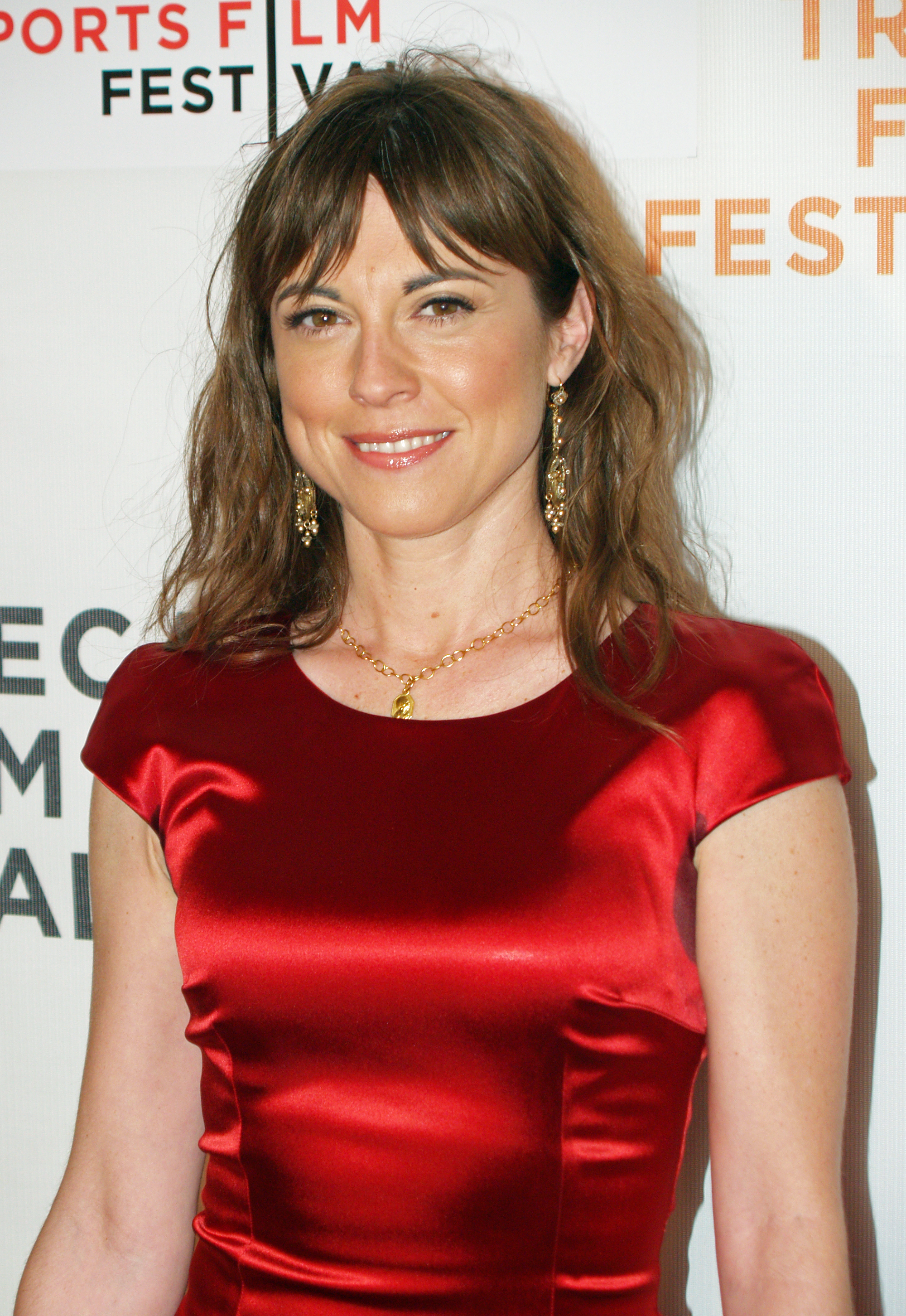 Rebecca Pidgeon at the premiere of Redbelt at the 2008 Tribeca Film Festival.